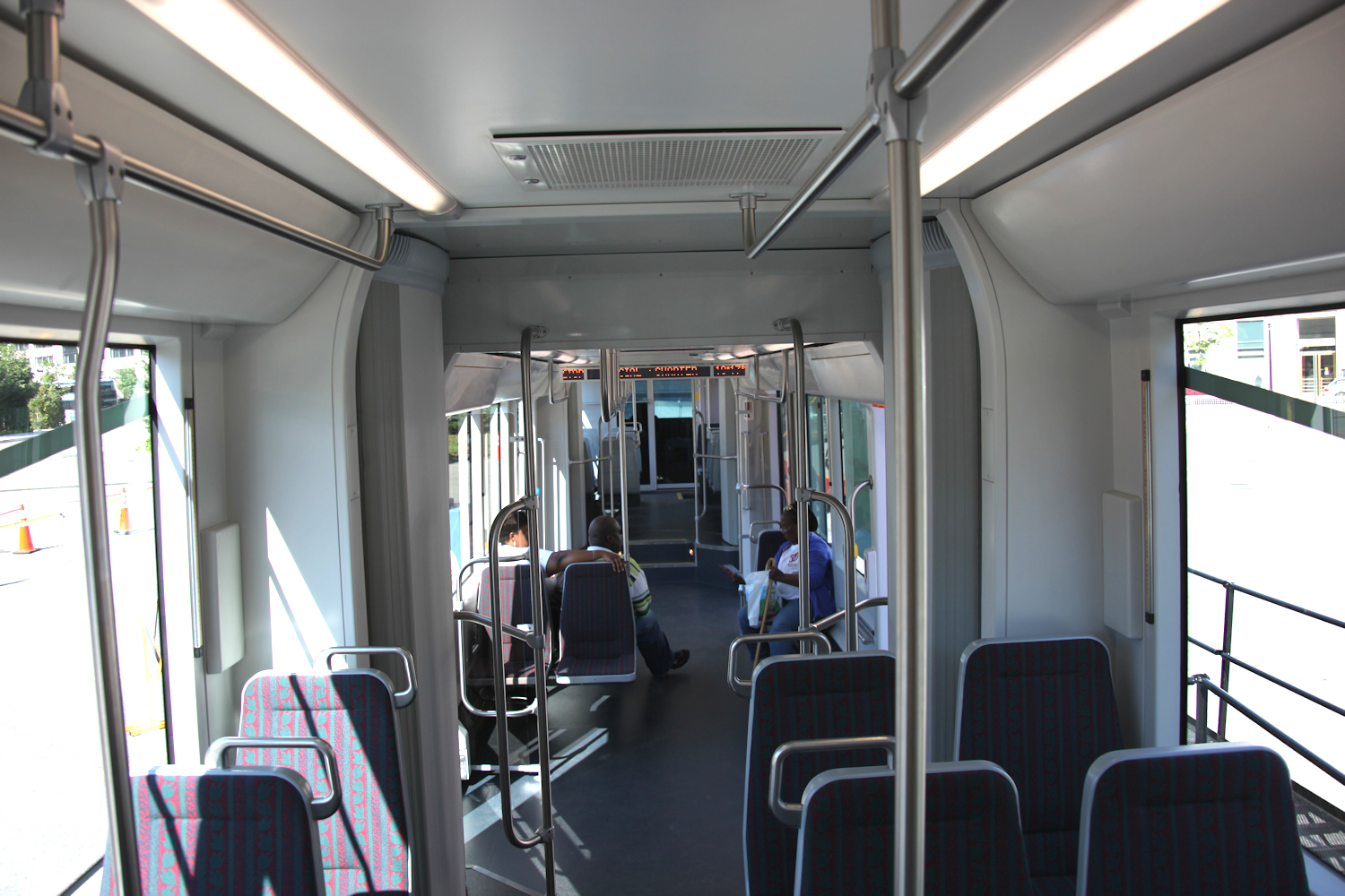 Interior of a DPO-Inekon streetcar (also known as an Inekon tram) purchased in 2005 by the D.C. Department of Transportation for use on the Anacostia line of the DC Streetcar system in Washington, D.C., in the United States. Image depicts half of one car, the joint inbetween the two cars, and all of the other car.